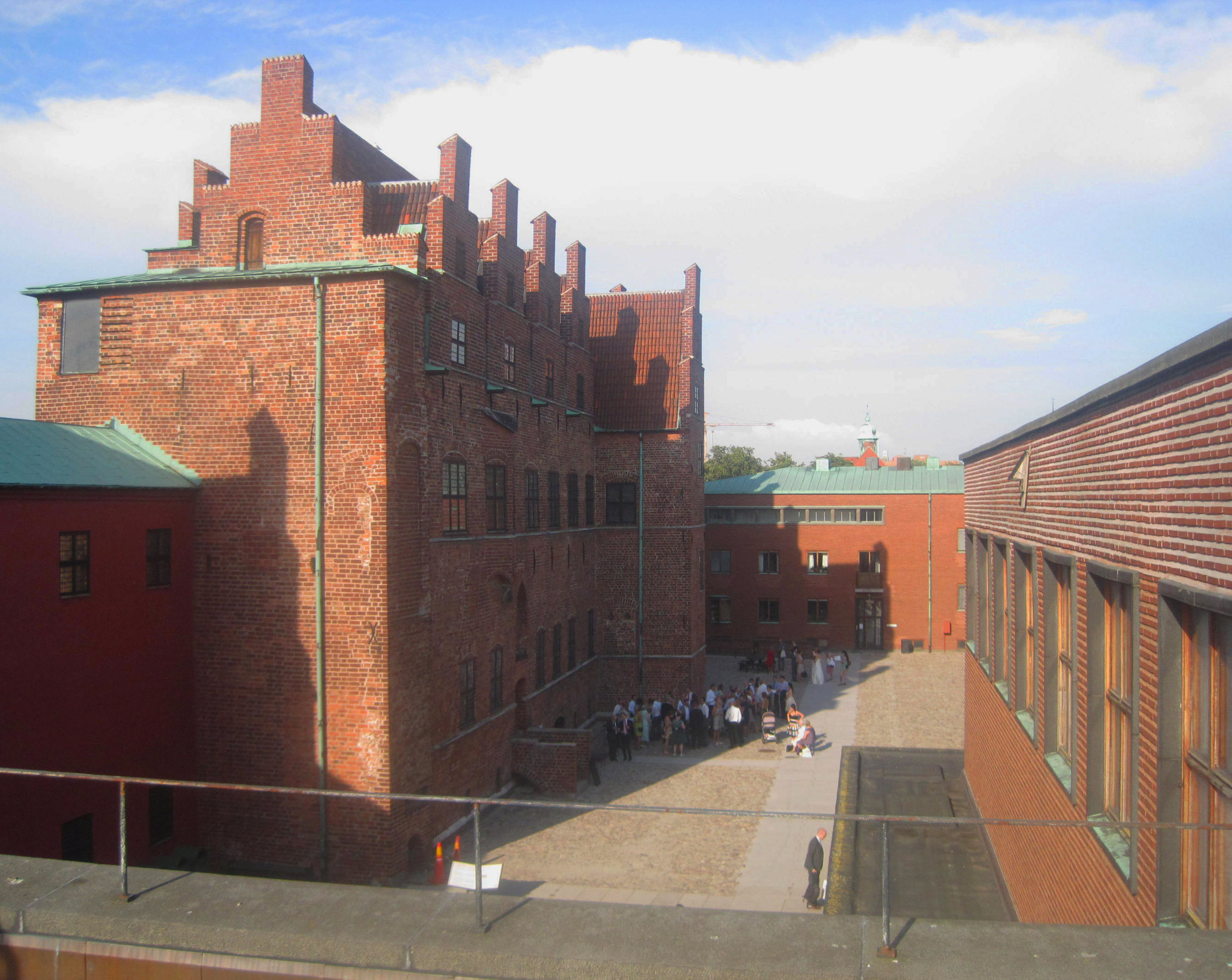 View from the courtyard of Malmö Castle.